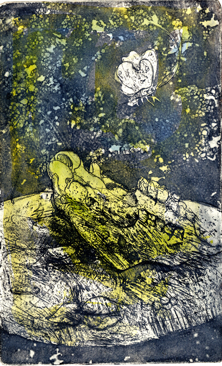 Ieri un millennio fa: omaggio a Libero De Libero (1984=. Acquaforte e acquatinta ritoccate a mano,15x10 cm